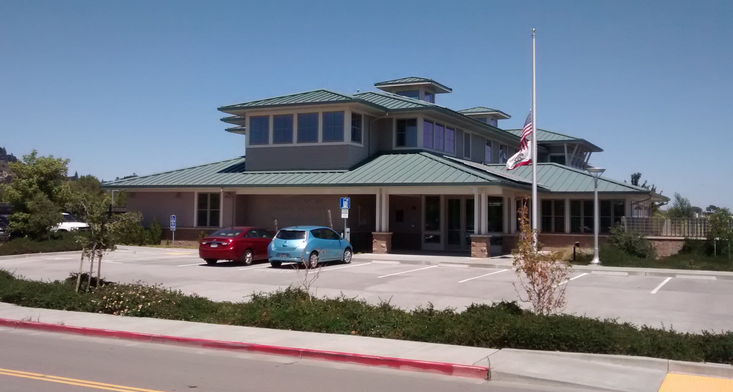 Central Marin Police Station in Larkspur, California.